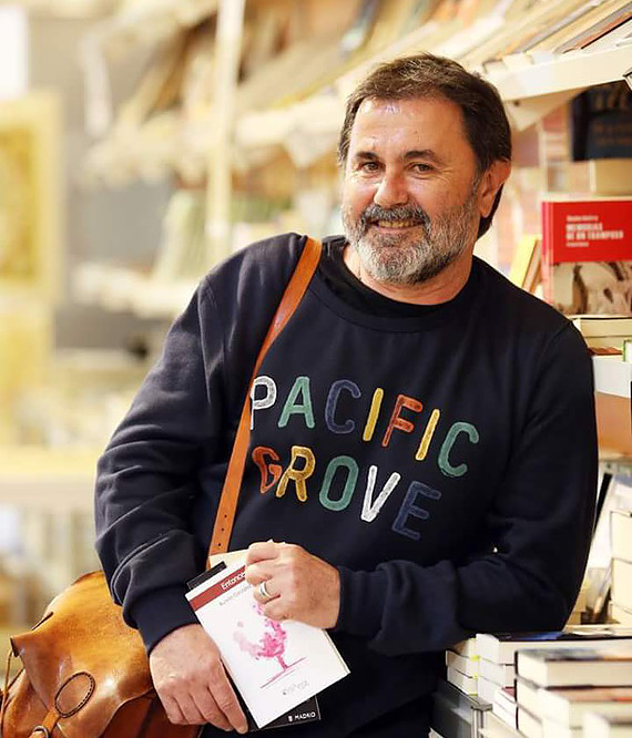 Presentación del poemario "Entonces" en LibrOviedo